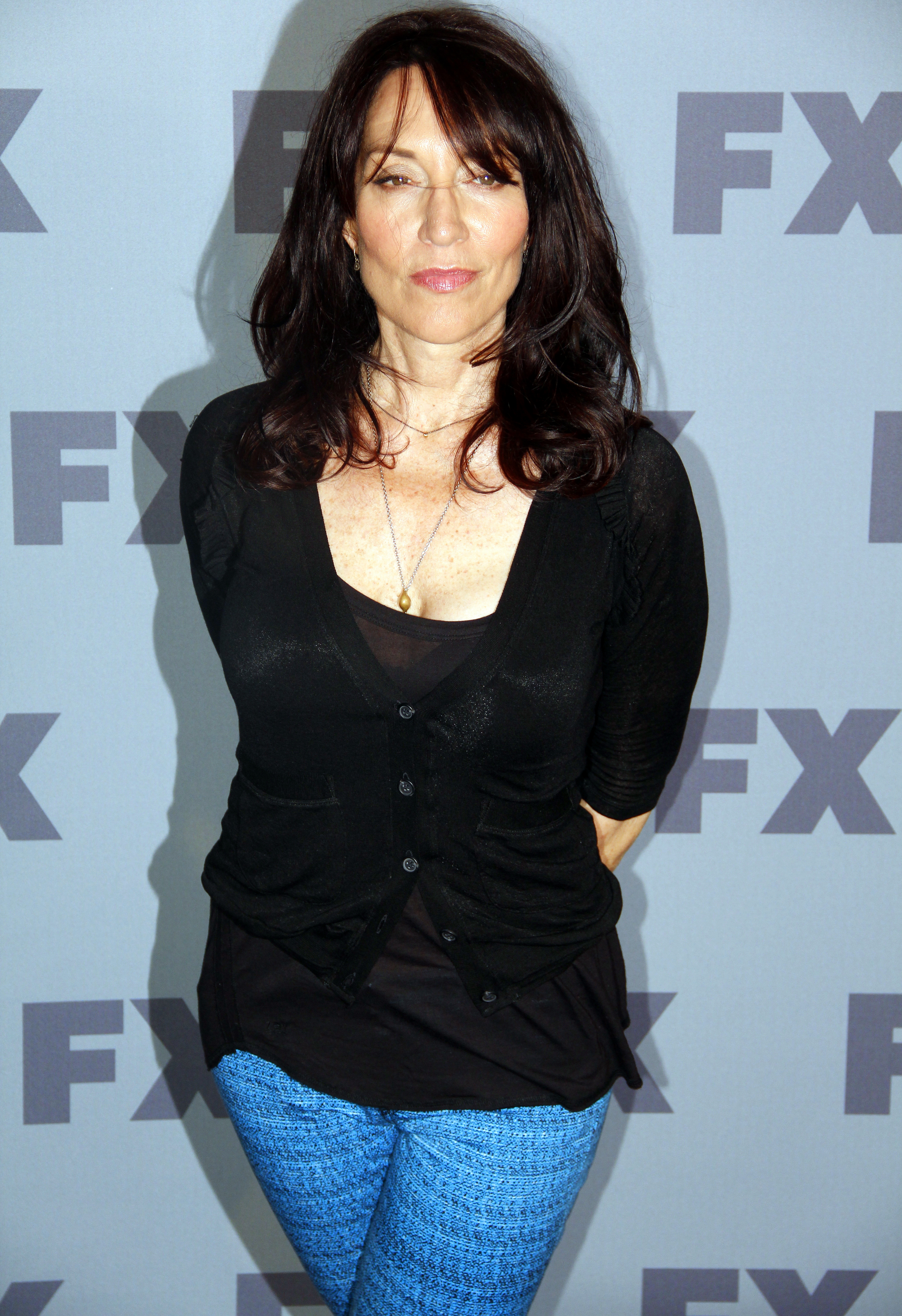 Katey Sagal at the 2012 FX Ad Sales Upfront.